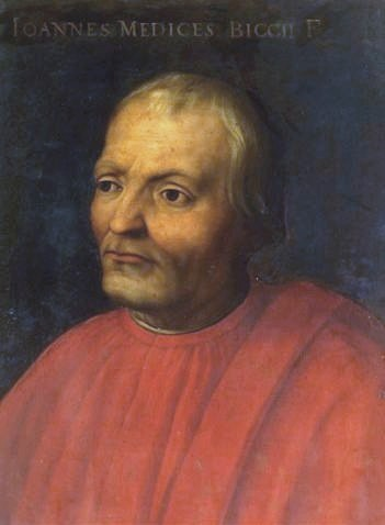 Posthumous portrait created as part of a series